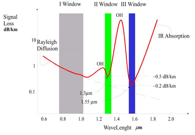 Optical fibers transmission windows